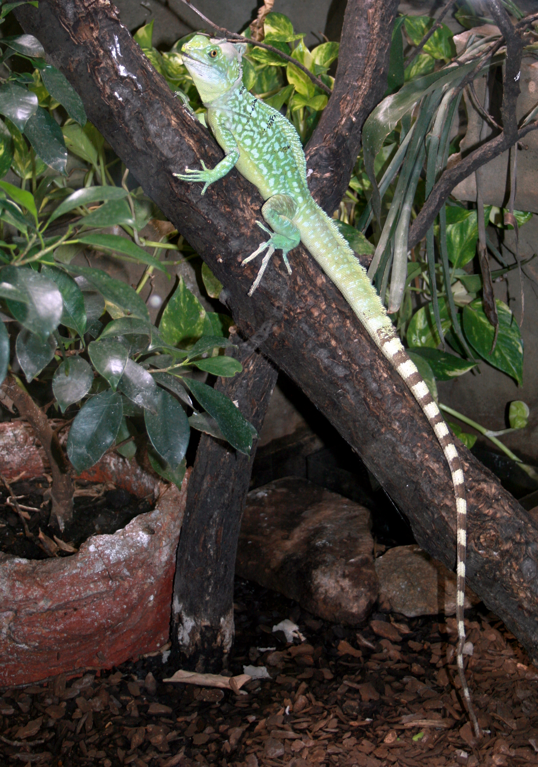 Plumed basilisk, Basiliscus plumifrons in ZOO Dvůr Králové, Czech Republic